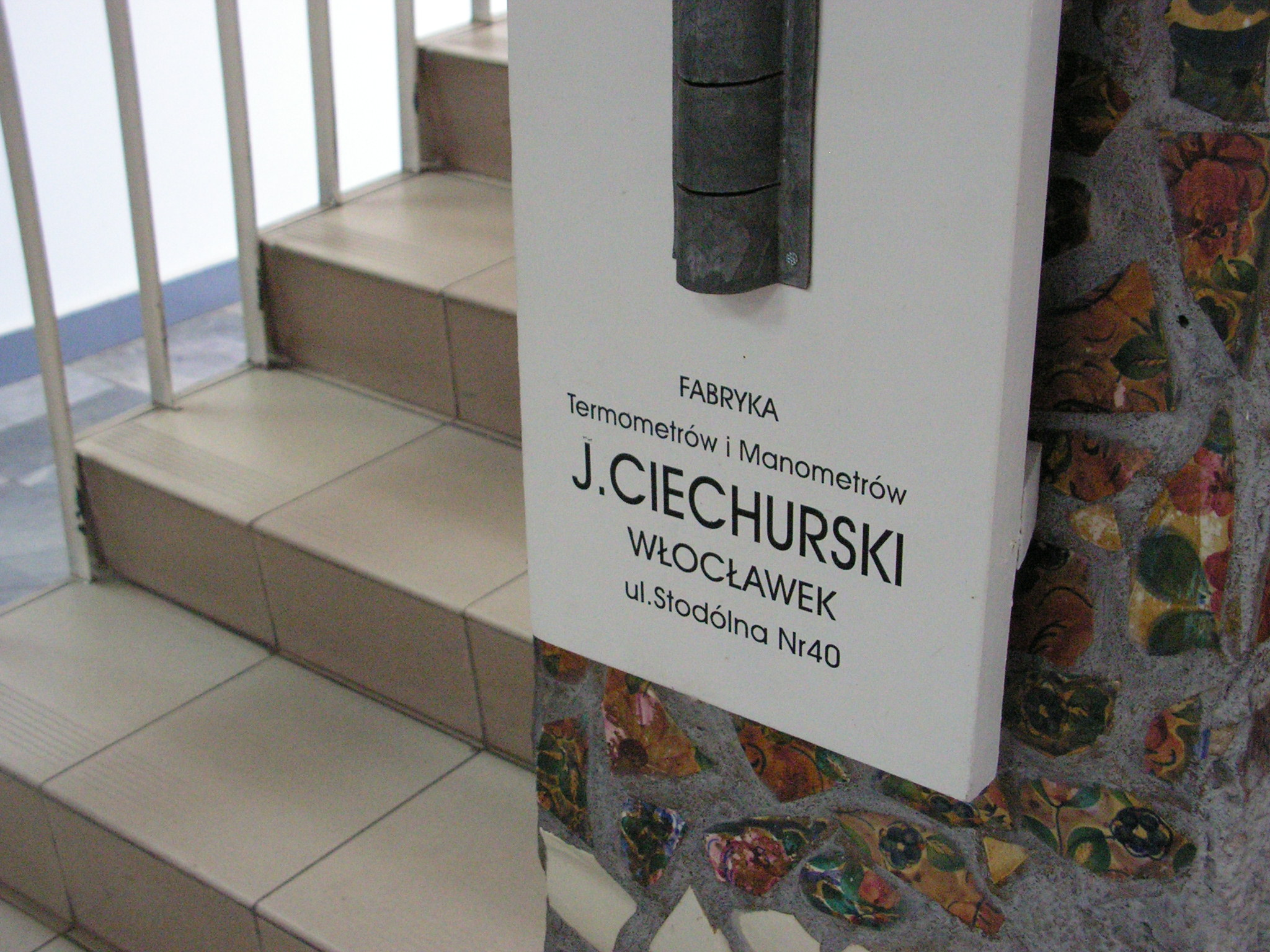 Thermometer in Public Library at Warszawska Street in Włocławek, signed by Manometers and Thermometers Factory of Ignacy Ciechurski.